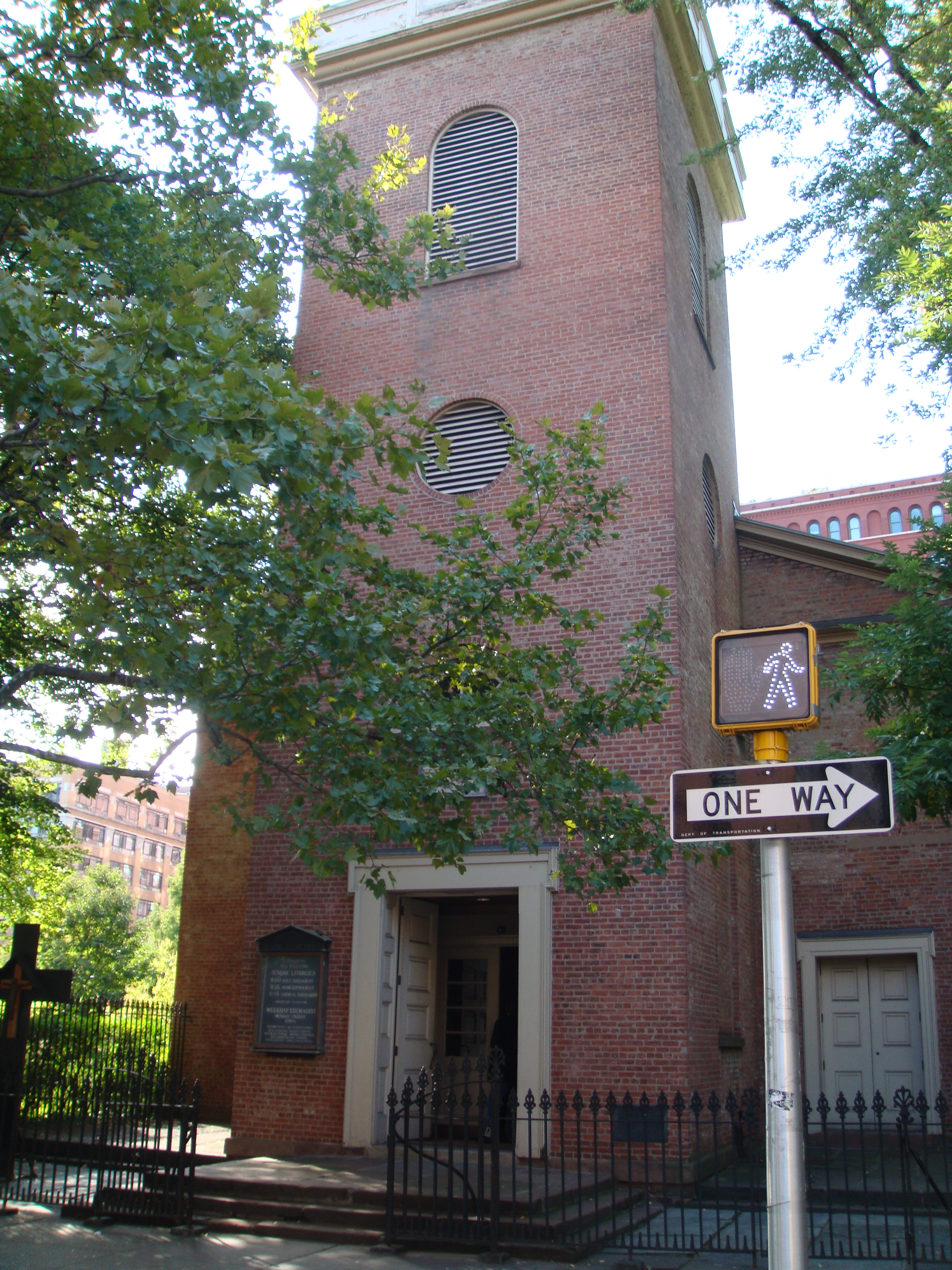 This photo is of Wikis Take Manhattan goal code F4, Church of St. Luke in the Fields, Greenwich Village.